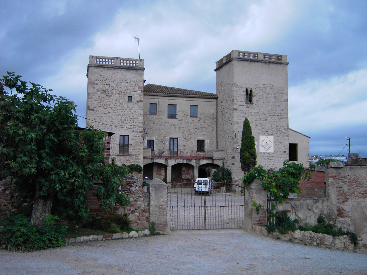 Front view of Torre d'en Malla (Gallecs, Parets del Vallès, Catalonia, Spain).